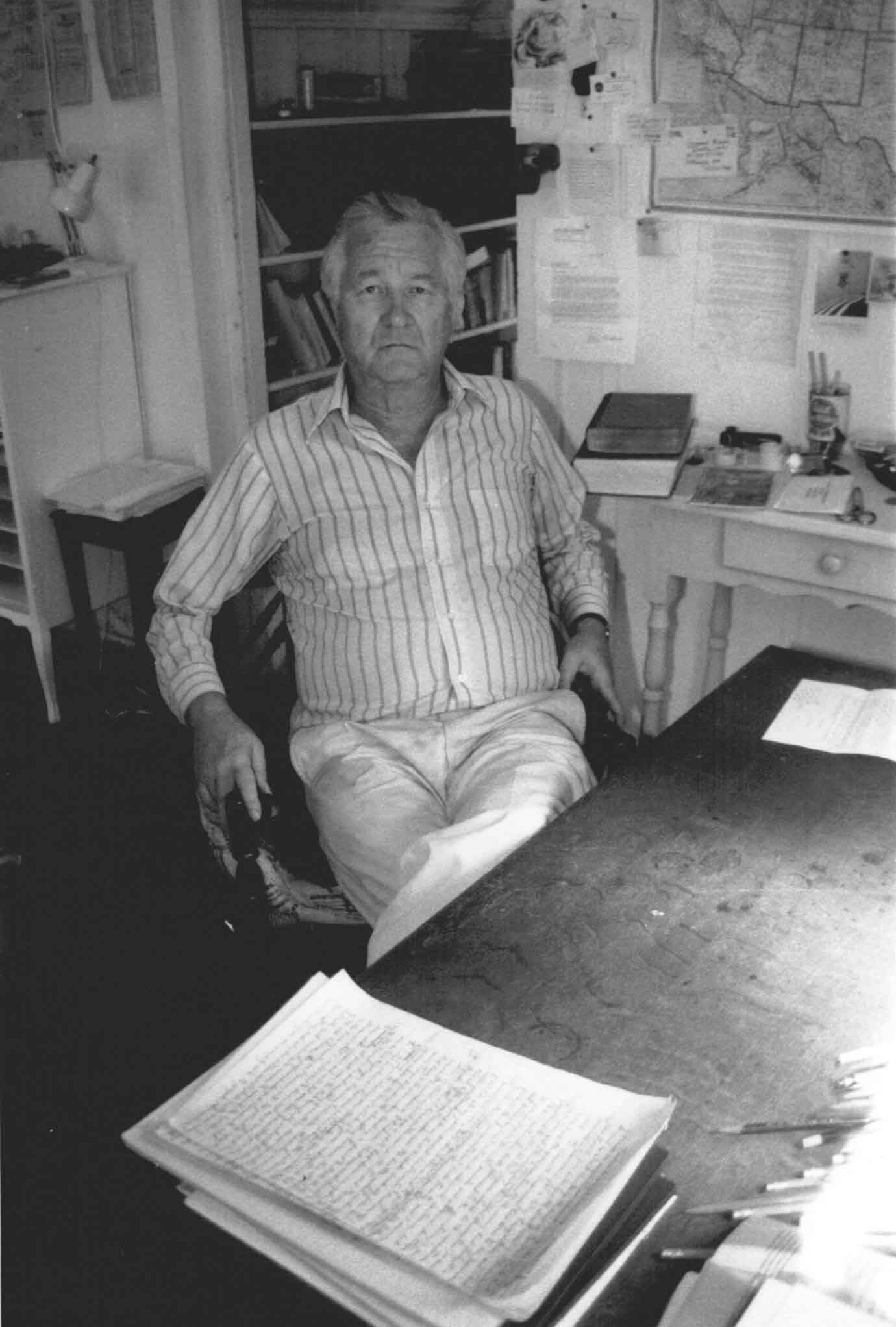 William Styron taking a break from writing to be photographed by William Waterway Marks, publisher/editor of "Martha's Vineyard Magazine." Styron rarely allowed people in his private writing room. And, before this photo, it is believed that Styron never allowed anyone to photograph him at his writing desk. This room was located on the ground floor of his West Chop home on the island of Matha's Vineyard. Styron's writing room was in an inconspicuous location between the kitchen and garage. This room had only one mullioned window at eye level above his writing desk. Styron's writing desk was purchased at a yard sale on Martha's Vineyard. See more about this photo in "Sitting Pretty Magazine" Styron always wrote long hand. He liked the tactile feel of pencil in hand which he felt helped him to connect his thoughts to paper. Syron had a manual pencil sharpener which he used to sharpen about fifteen pencils. Before he began to write, he sharpened a bunch of pencils, which allowed him to write without interruption. If you look closely at the lower right of this photograph - you will see a portion of a row of sharpened pencils that Styron used as his writing tools. Note how the pencils are slanted at a certain angle.